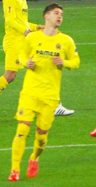 UEFA Euro League Round of 32